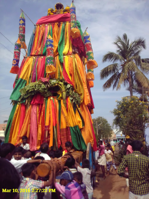 அங்காளம்மன் கோவில் தேர்